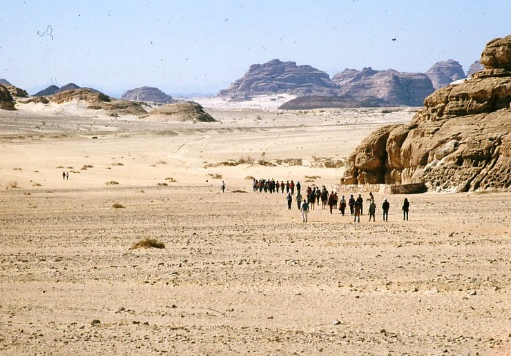 Sinai Peninsula